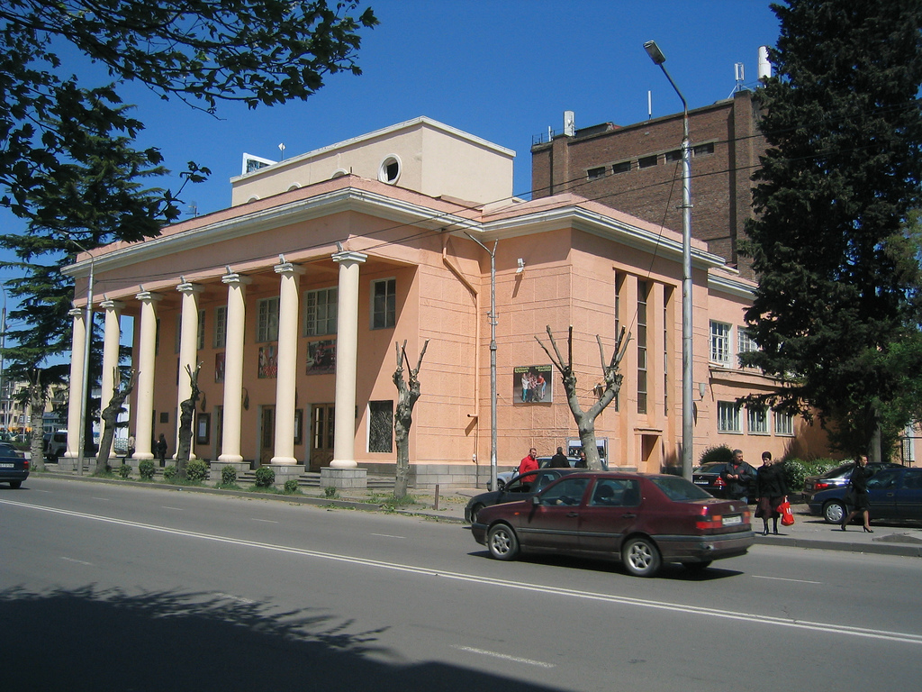 The Petros Adamian Tbilisi State Armenian Drama Theatre in the Avlabar district of Tbilisi, Georgia.